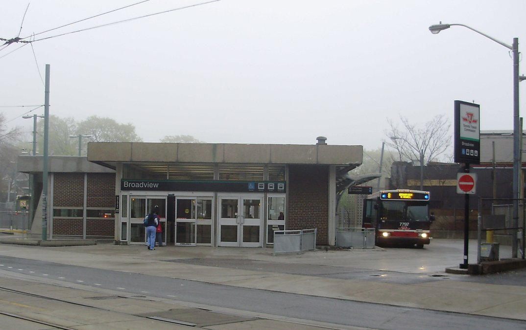 Broadview Station in Toronto, Ontario. A bus serving the 8 Broadview route is visible awaiting passengers.